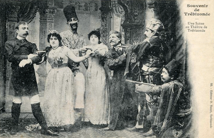 Postcard featuring a scene at a theatre performance in Trebizond (Trabzon, Turkey).